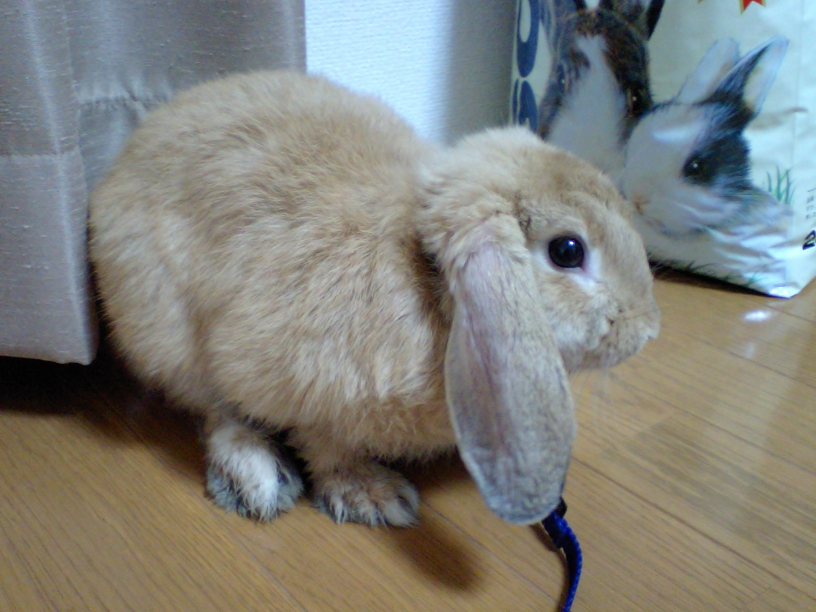 rabbit holland lop